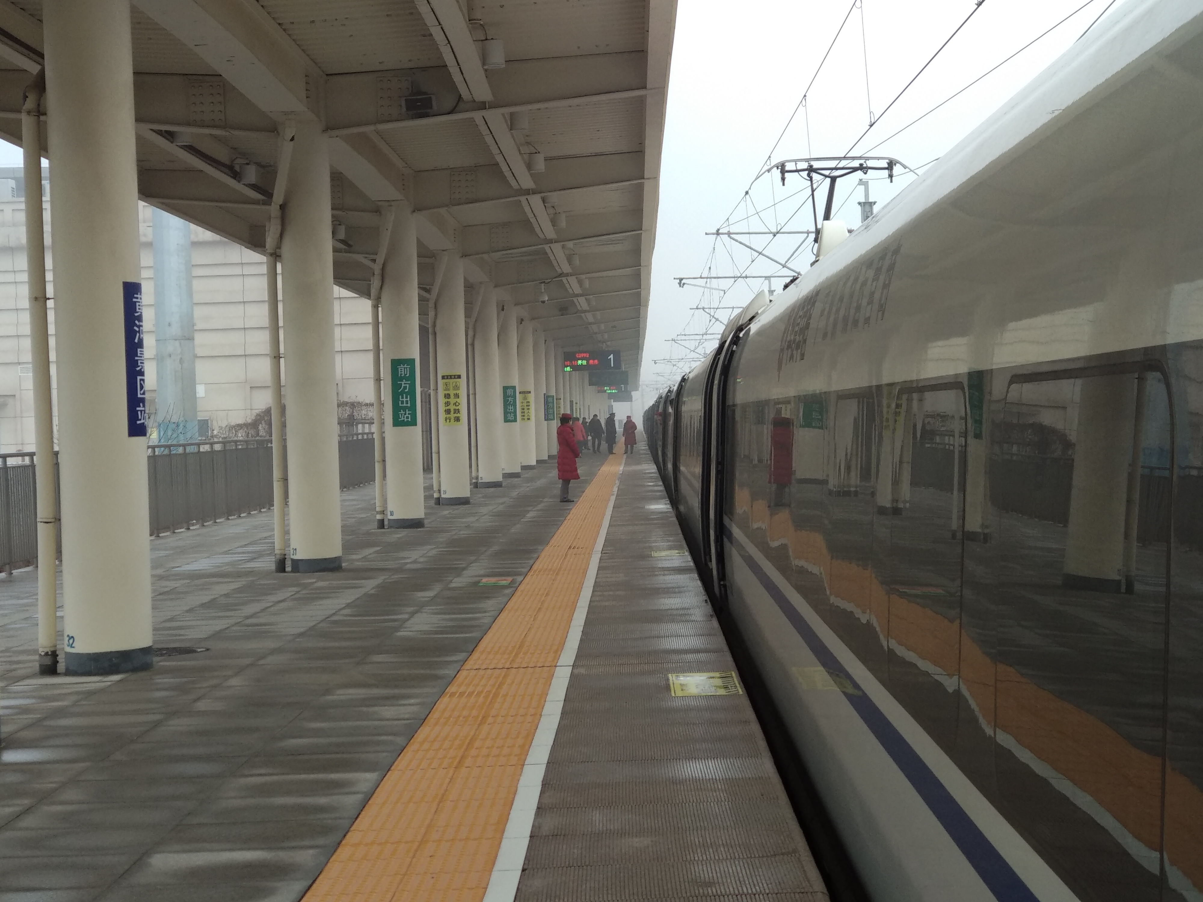 We have to stay here for 9 minutes, at a vacant station...